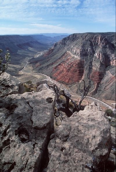 View of Grand Canyon-Parashant National Monument, Arizona